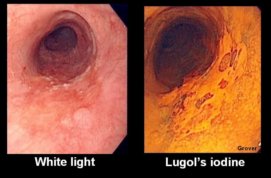 Example of chromoendoscopy of squamous cell carcinoma of the esophagus